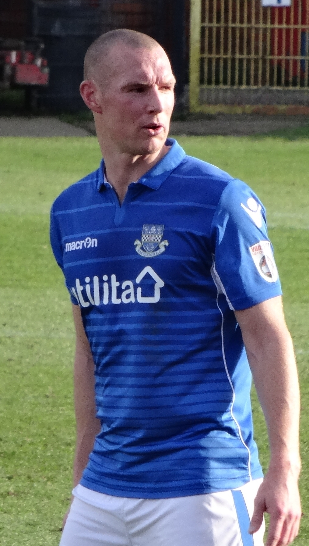 James Constable playing for Eastleigh against York City at Bootham Crescent, York on 4 March 2017